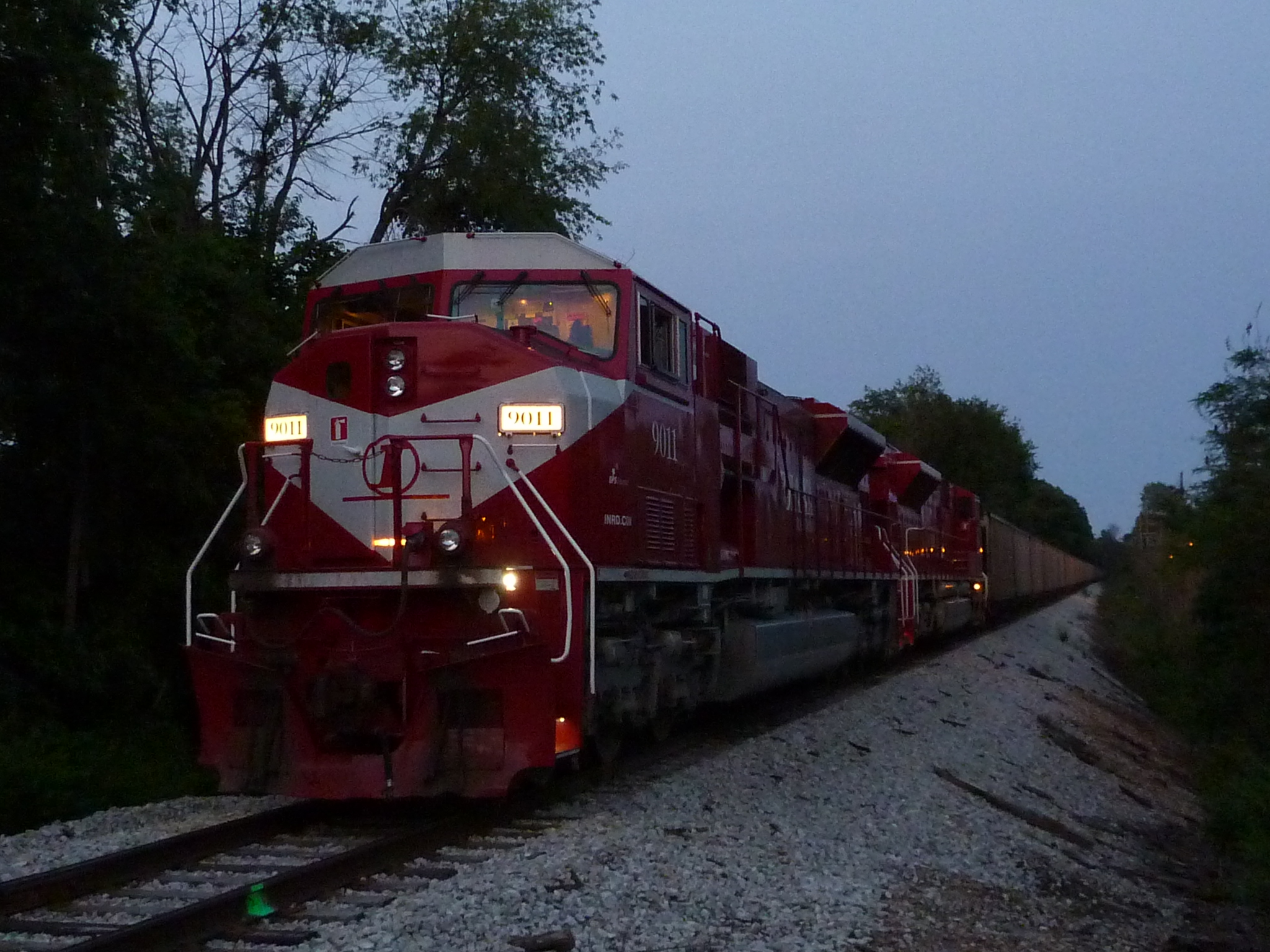 An Indiana Rail Road train standing on the east side of Bloomington, IN (a mile or so east of the highway bypass), as if coming to Bloomington from the direction of Morgantown, IN.